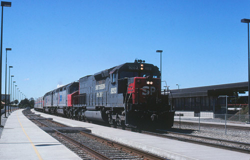 SP SD45T-2 #9203 leads an Amtrak train - almost certainly the westbound San Francisco Zephyr - into Richmond in July 1980